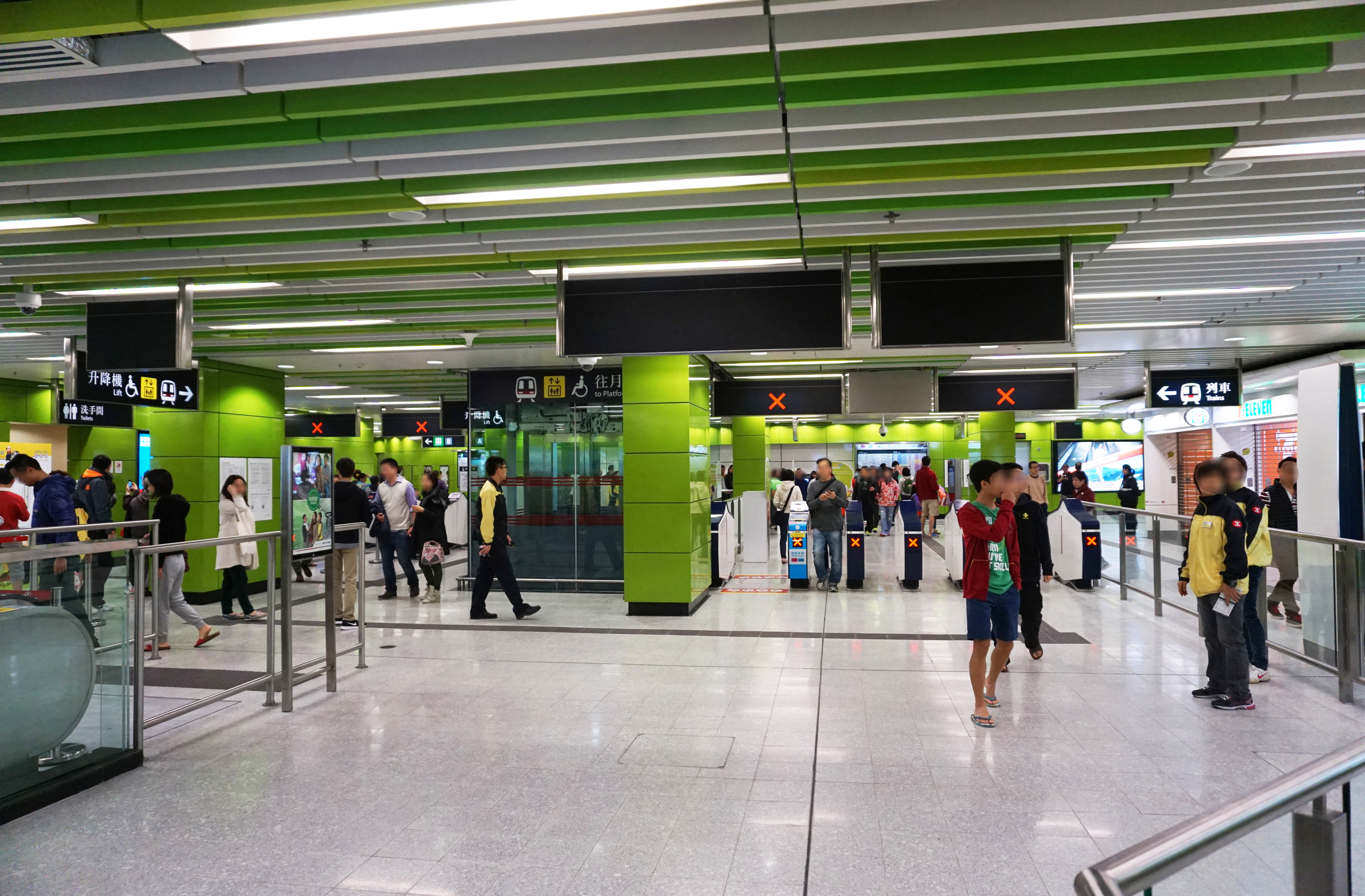 South Horizons Station in Ap Lei Chau, Hong Kong.